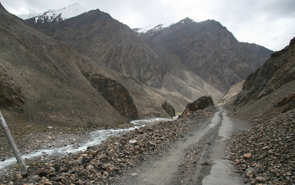 Karakoram Highway over Khunjerab Pass between China and Pakistan is the highest elevation International Border Crossing in the World.